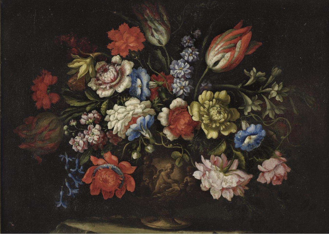 This image is available from the Netherlands Institute for Art History. This tag does not indicate the copyright status of the attached work. A normal copyright tag is still required. See Commons:Licensing.